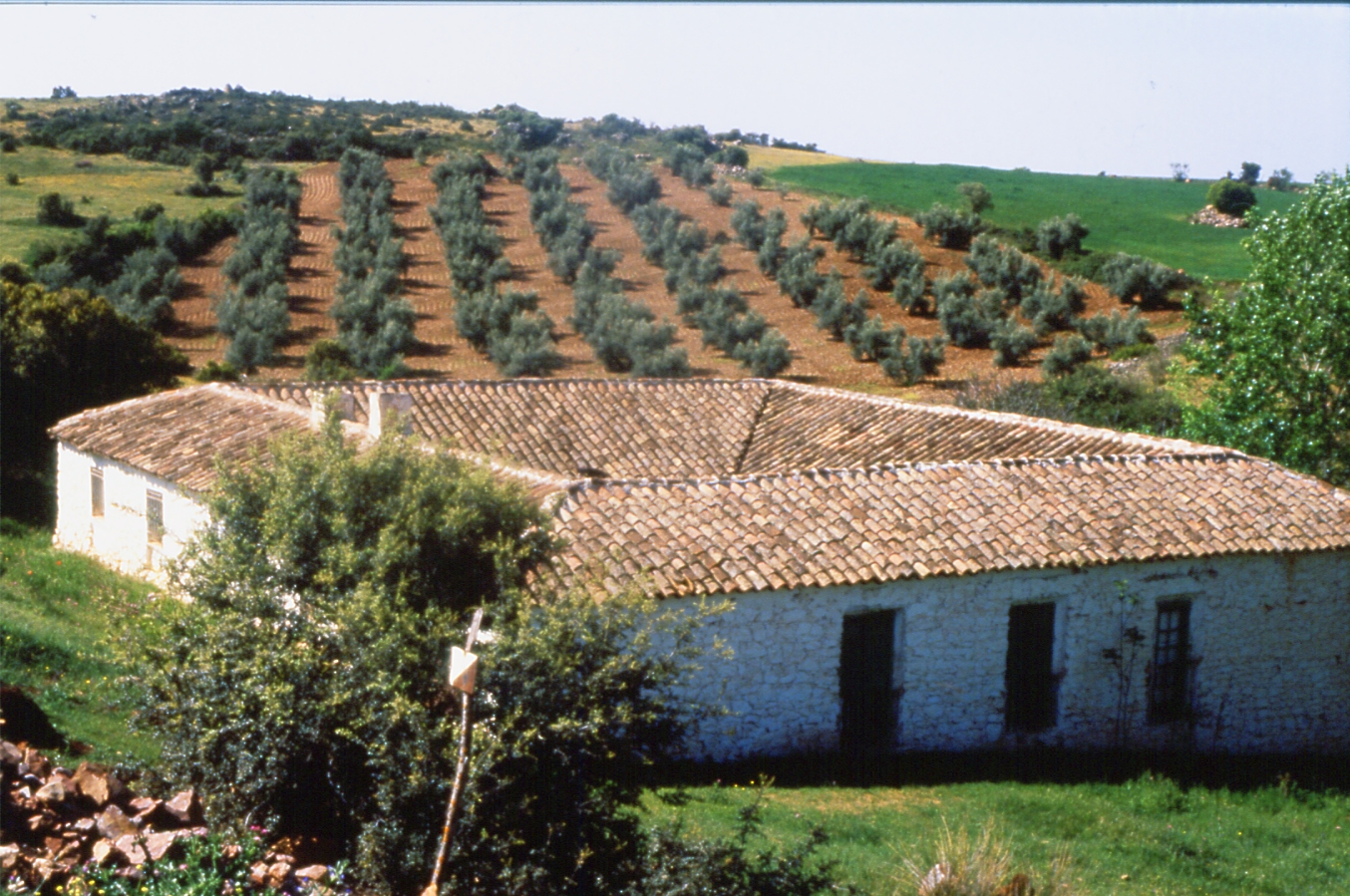 Farmhouse in the eastern part of the Sierra Morena, Spain